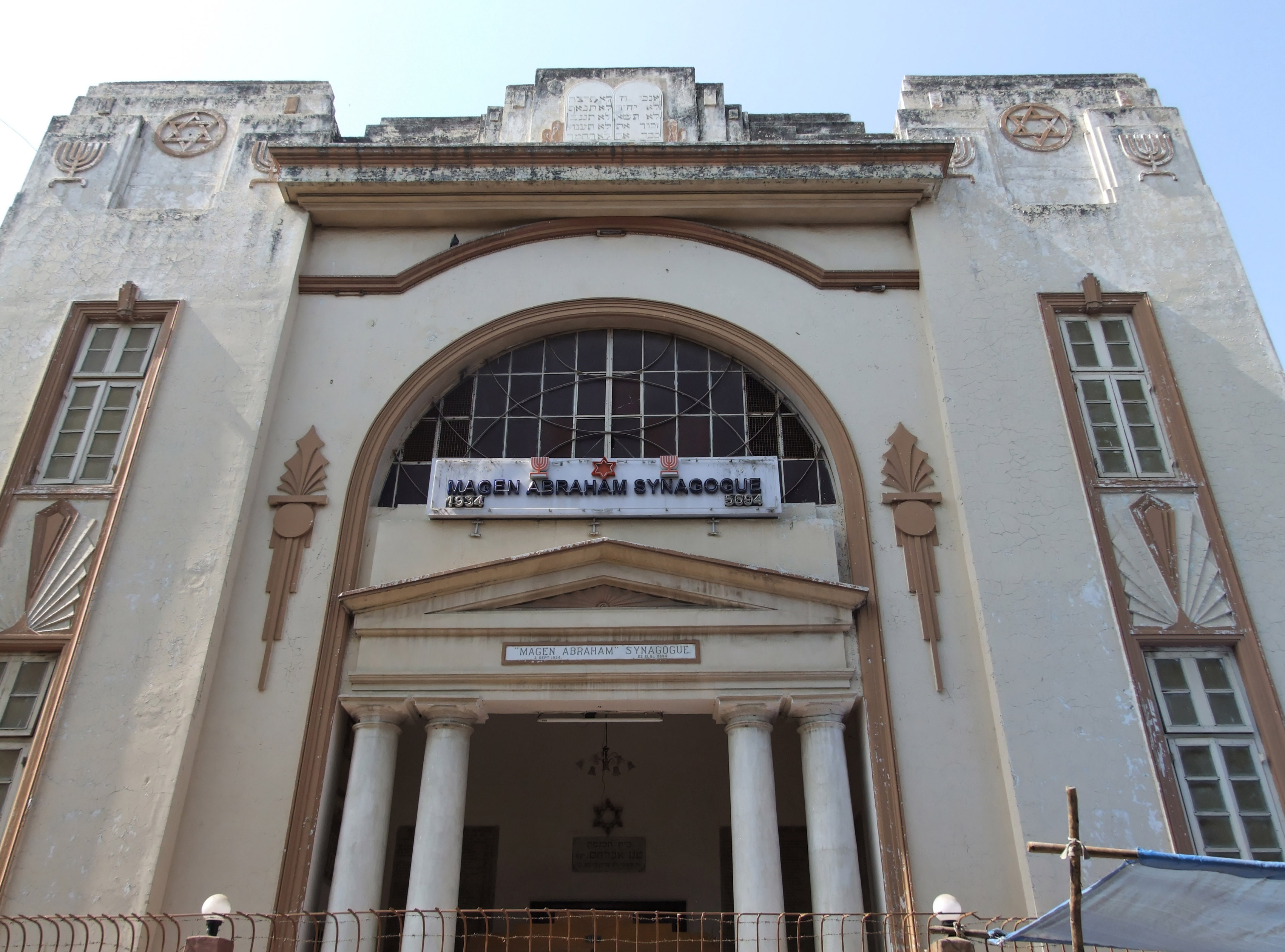 Jewish Synagogue in Ahmedabad, India